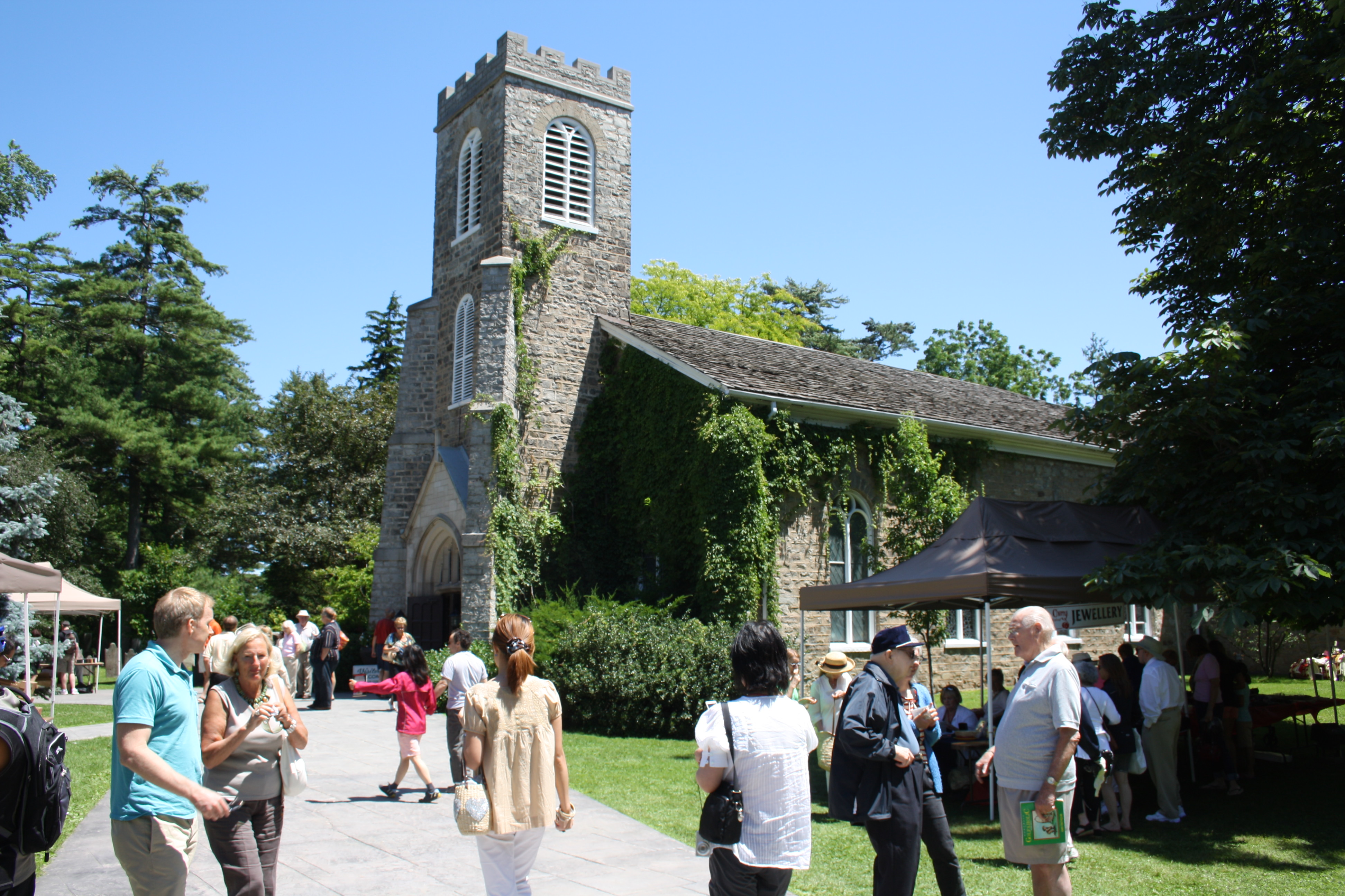 St Marks Church, Niagara-on-the-Lake.